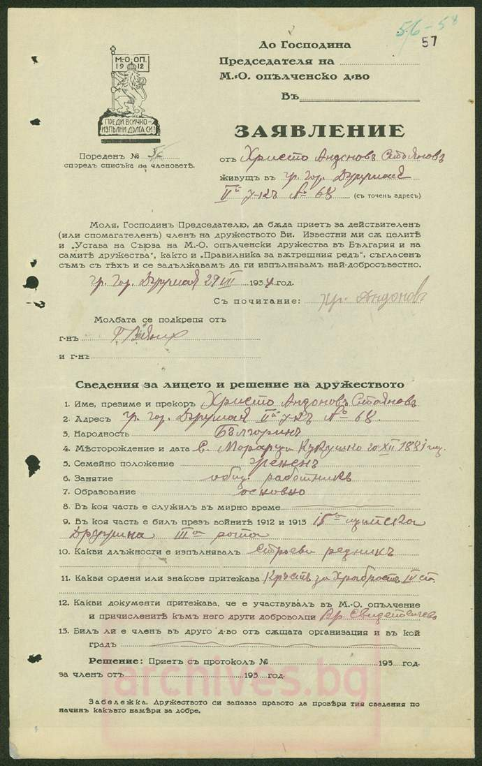 Hristo_Andonov_Stoyanov's Document